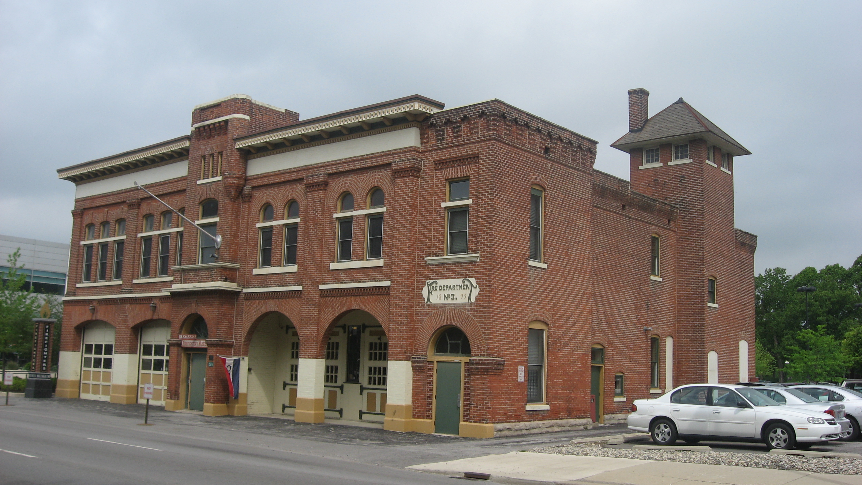 Front and eastern side of Engine House No. 3, located at 226 W. Washington Boulevard in Fort Wayne, Indiana, United States. Built in 1893, it is listed on the National Register of Historic Places.